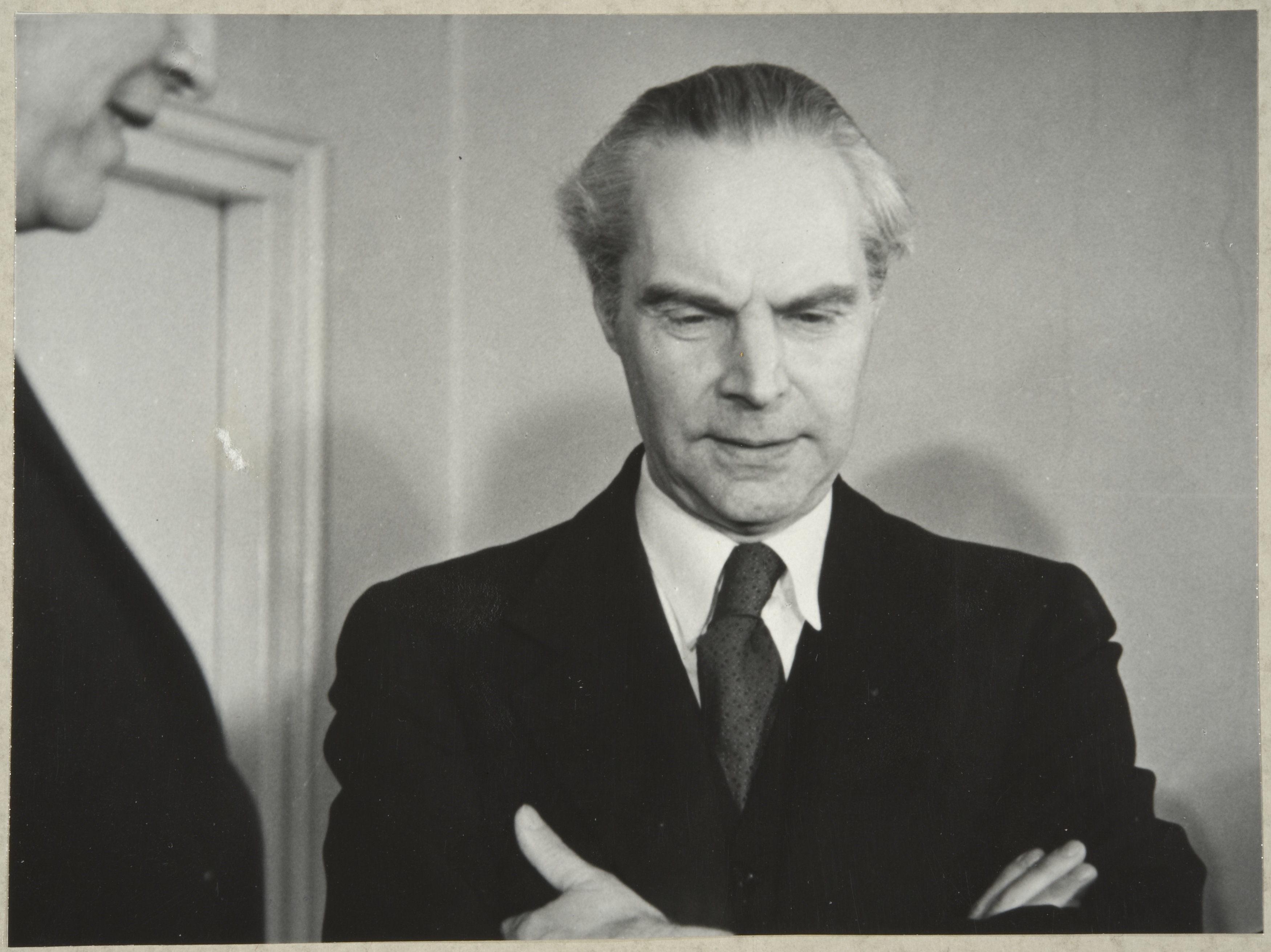 Photograph of the Finnish philosopher Eino Kaila (1890–1958).